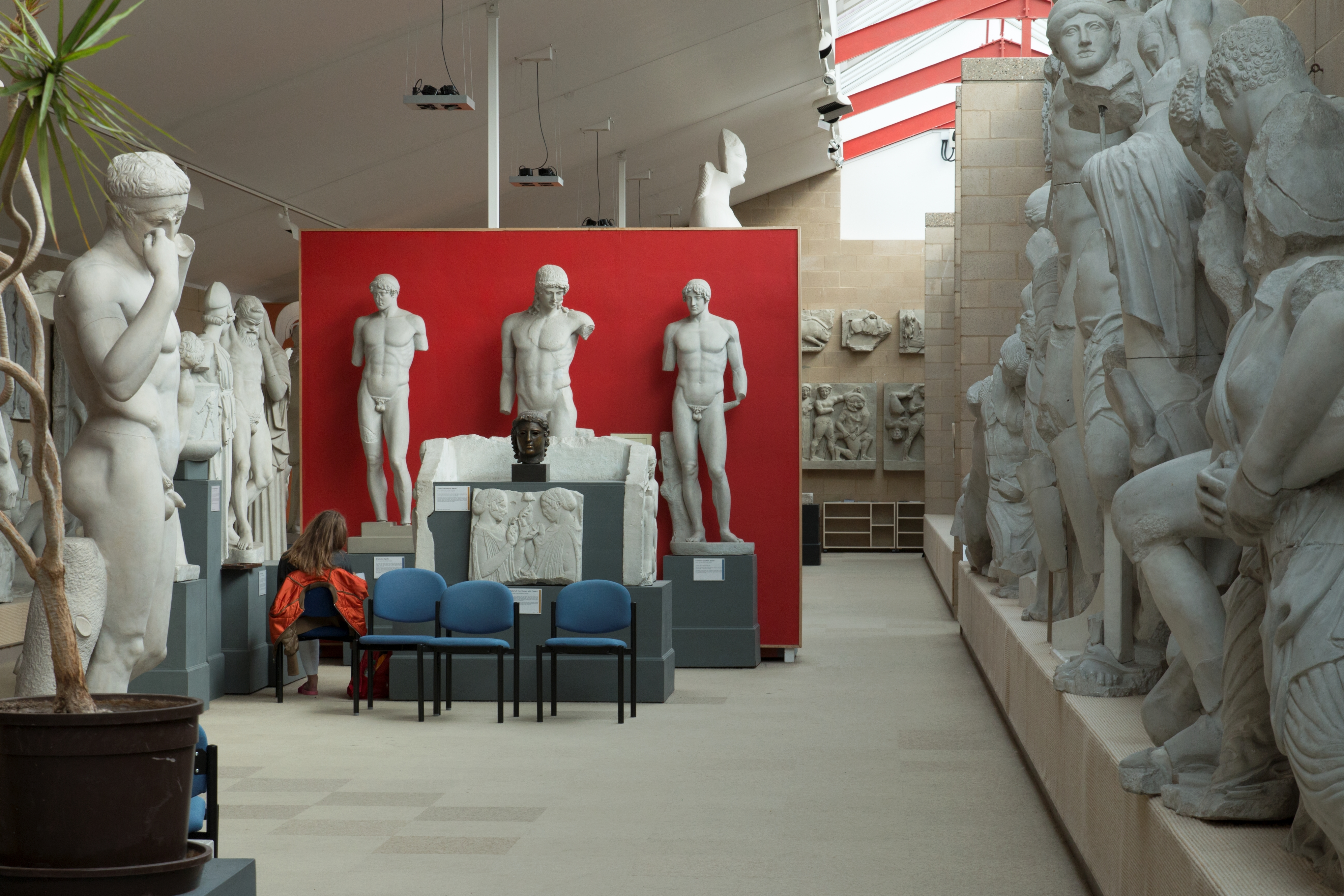 Plaster casts of ancient Greek sculpturues, Cambridge Museum of Classical Archaeology.